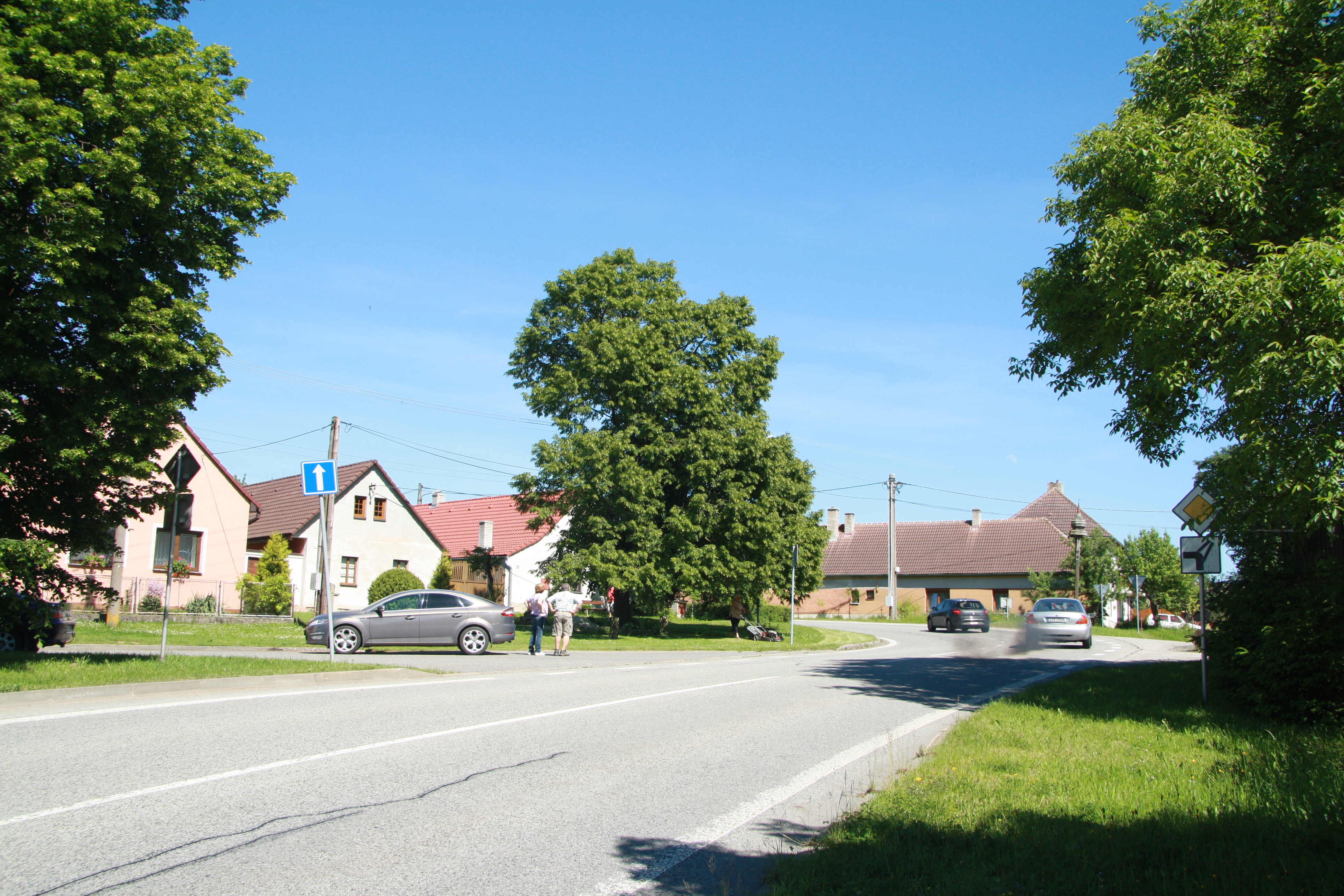 Center of Hory, Předín, Třebíč District.